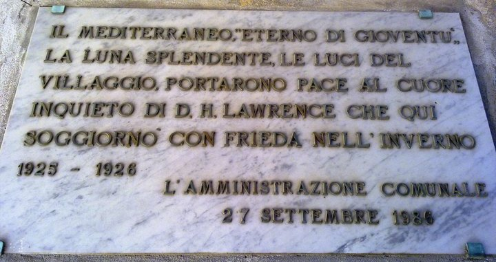 Plaque regarding the residence of D.H Lawrence in Spotorno - Italy (1925-26)